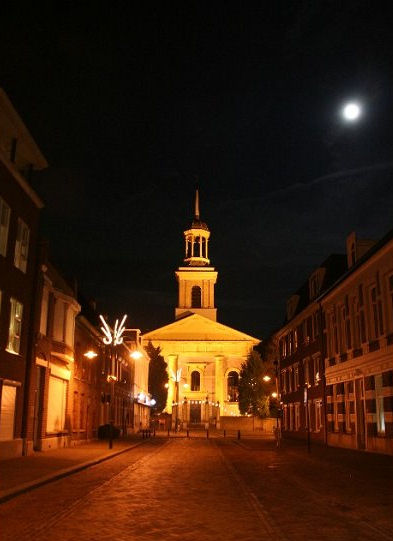 The "White Church" of Steenbergen, the Netherlands.